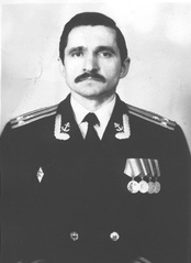 Фотография в личное дело во время получения звания капитана 1 ранга в 1988 году.